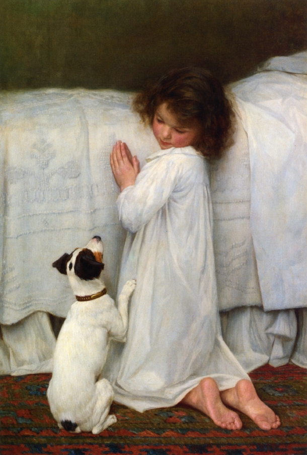 William Henry Gore - Forgive us our trespasses